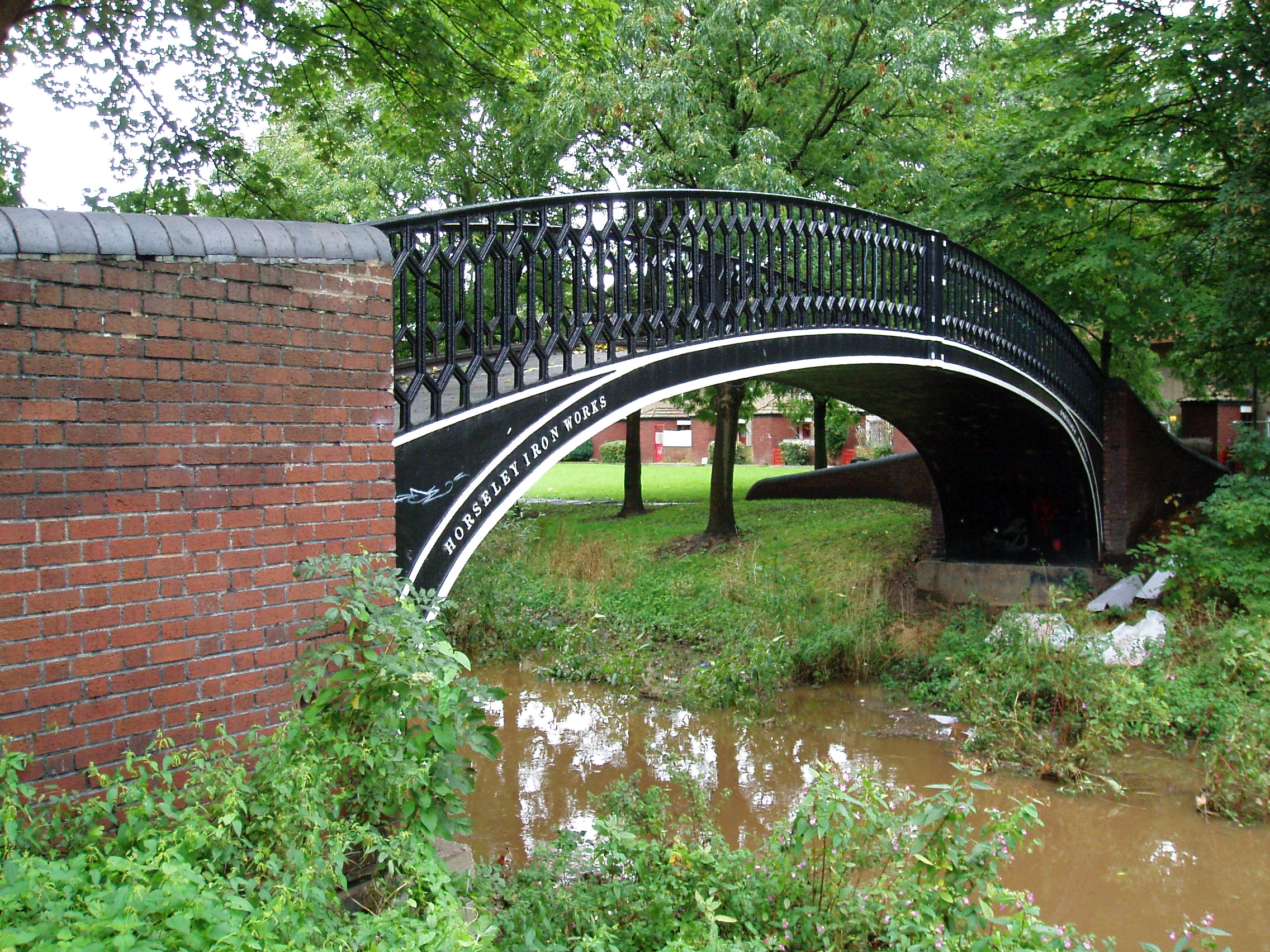 Some of the Horseley iron footbridges bridges on the Coventry and Oxford Canals built 1832-34, may have been designed by C. B. Vignoles. Vignoles Bridge - Meadow Street is a Scheduled (Ancient) Monument. These are subject to the Ancient Monuments Acts which take precedence over listed buildings procedures. Charles Blacker Vignoles (31 May 1793 – 17 November 1875) was an influential early railway engineer. Vignoles supervised the construction of the first railway in Ireland in 1834, and was then employed to survey and construct a number of railways in the British Isles and on in mainland europe. Between 1847 and 1853 Vignoles built, and also designed, the suspension bridge over the River Dnieper in Kiev, Russia. Five years later, he surveyed and supervised the construction of the 155-mile (250 km) Tudela and Bilbao Railway in Spain. A general form of construction developed for bridges spanning canals comprised four main side castings, two each side joined at the centre span by a form of locking plate and then bolted together. Cast iron plates were then fitted to these main castings by bolts or set screws forming an arch at the level of the bottom profile of the side castings and creating a smooth appearance. The upper surface of these plates was built up as necessary to form the deck of the bridge. Such bridges were cast for the Oxford and Coventry canals and many for the Birmingham Canal Navigation. Some years ago a bridge, no longer needed in service at Sowe Common, was moved from the Coventry canal to a site in the centre of Coventry.